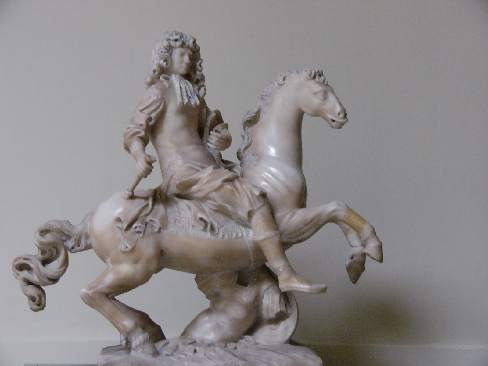 Prince Maximilian II Emmanuel of Bavaria, 1662-1726, Sculpture of Marmor, Artist Giuseppe Volpini, 1729, in the Museum for Fine Arts, Budapest